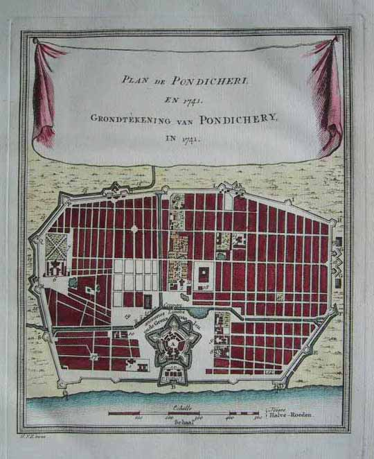 Bellin's plan of Pondicherry, a copperplate engraving, 1741; *the whole page*; *a very large scan of the map with an explanatory key* Source: ebay, Nov. 2004; Dec. 2005